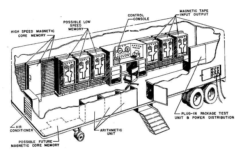 MOBDIC cutaway view